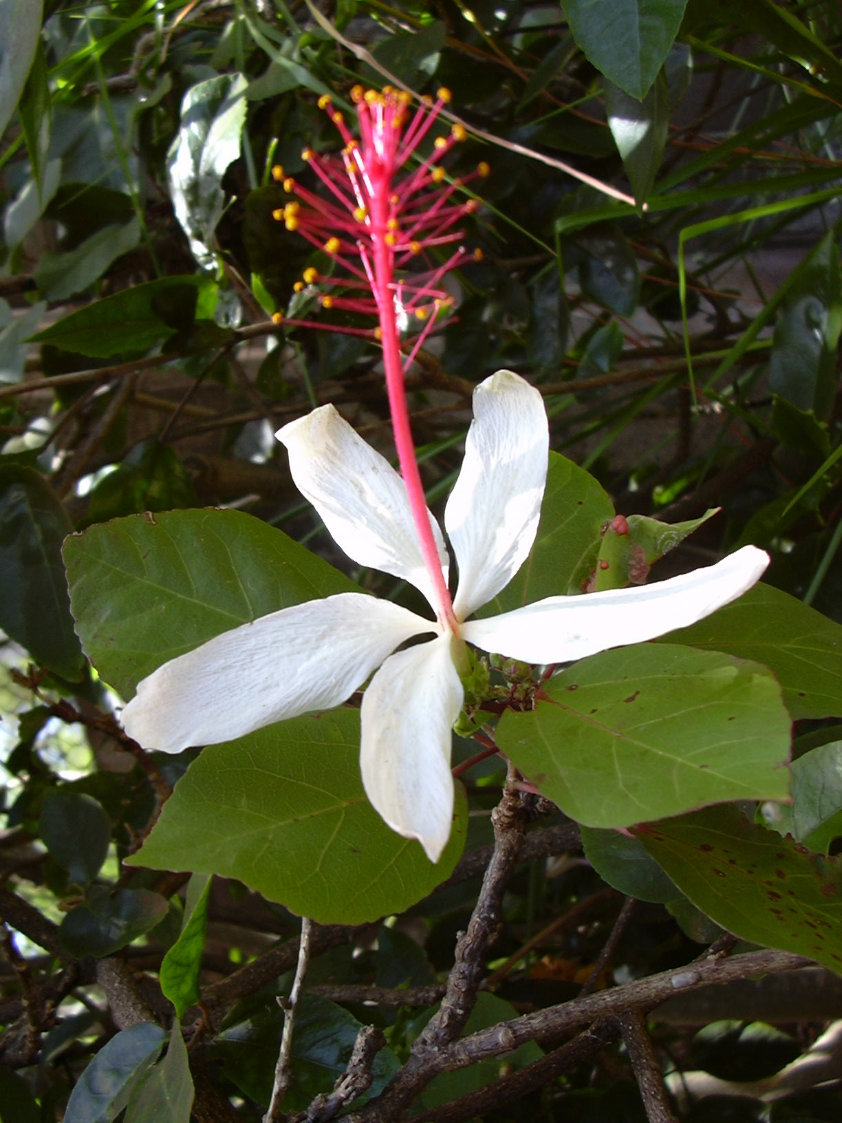 Hibiscus arnottianus subsp. arnottianus (flower). Location: Maui, State nursery Kahului